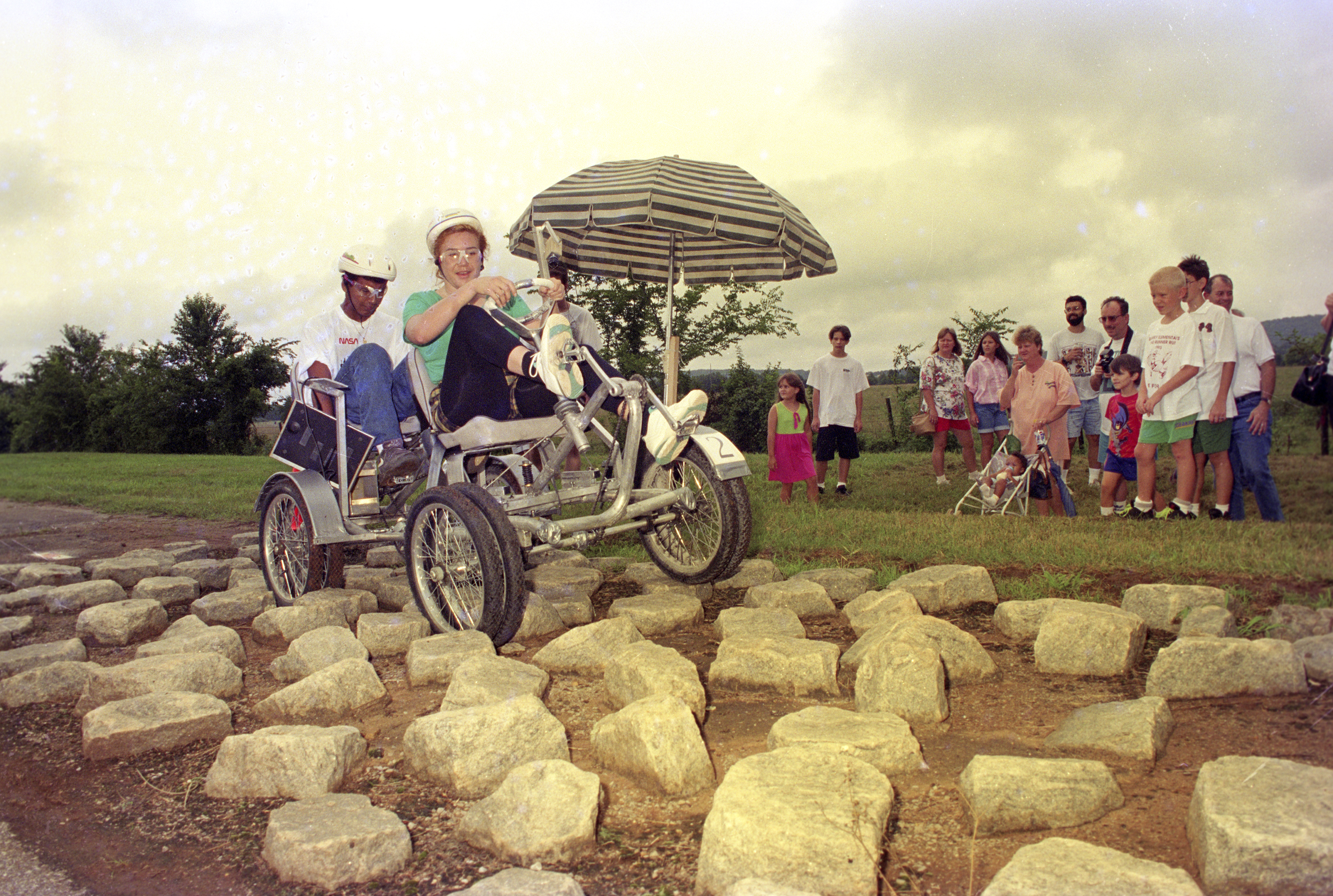 The University of Puerto Rico team maneuvers their velricle through the boulder field, orre of many obstacles presented to the moon buggies in Saturday's race.